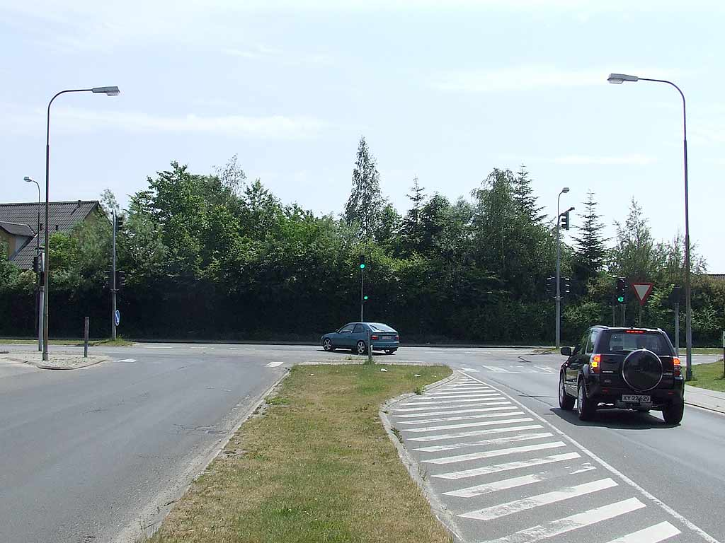 T-intersection with traffic light in Århus, Denmark